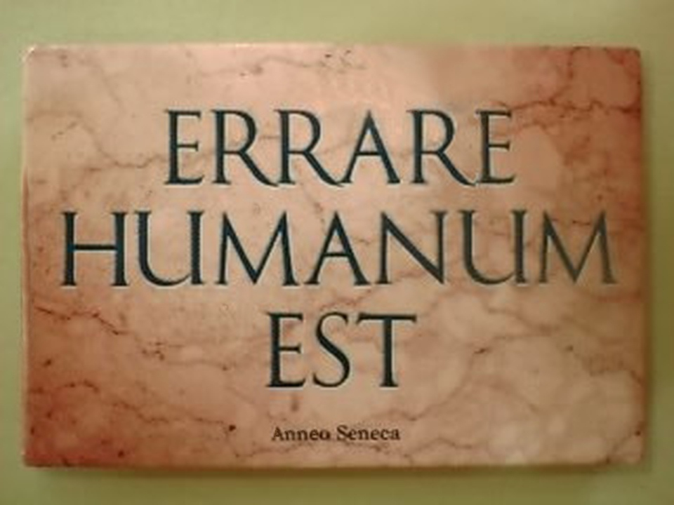 Note: Although attributed here to "Anneo Seneca" this phrase does not appear in the works of either the elder or the younger Seneca. The phrase originates from the Epistles of Jerome, and earlier (in a rather different form) in the Philippics of Cicero. Cf. Dickison SK, Hallett JP, Rome and Her Monuments, page 512.